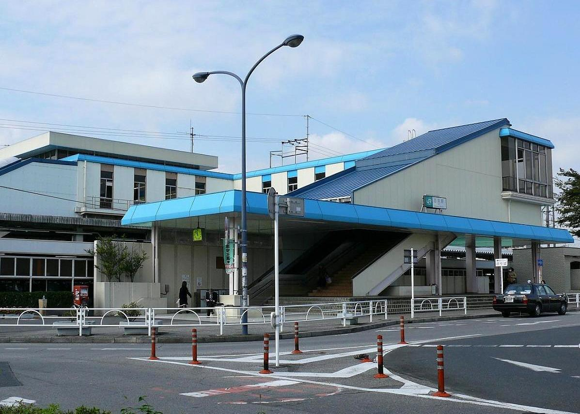 East Japan Railway Siraoka-Station(Japan,Saitama prefecture,Shiraoka town). It takes a picture of the station eastward exit of Shiraoka Station in the JR Utsunomiya line from the public road. See also Ja:白岡駅 for more information(written in Japanese). JR宇都宮線白岡駅の駅舎東口を公道から撮影。 駅の所在地は埼玉県南埼玉郡白岡町。